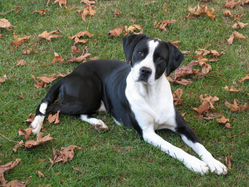 Dog breed Canadian Pointer black and white